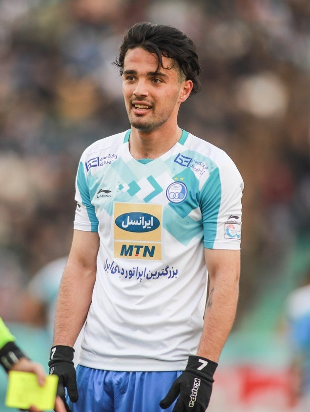 Omid Noorafkan